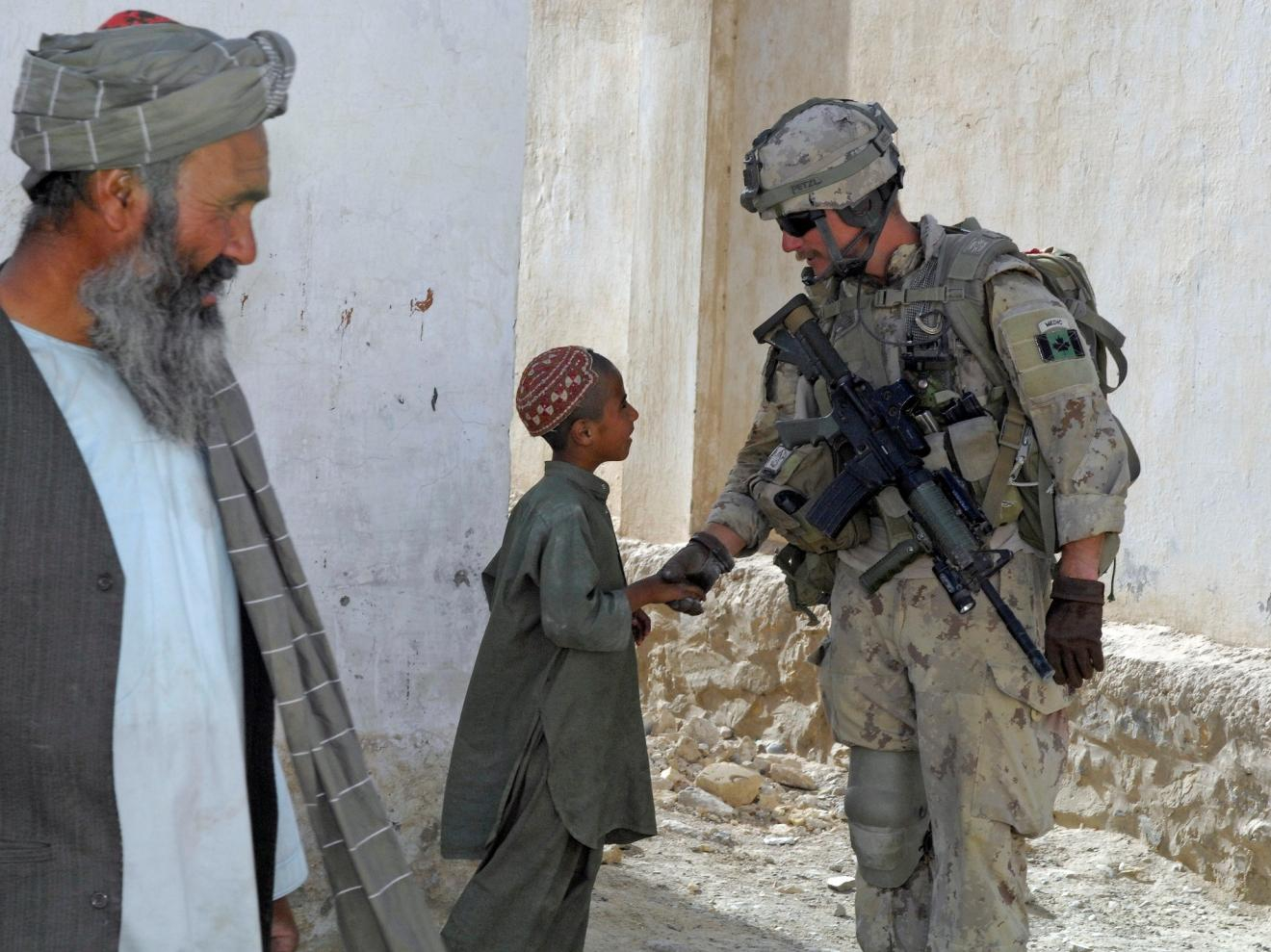 Canadian Cpl. C. M. Smithers, a member of the Kandahar PRT, makes a new friend. This PRT has worked on many construction projects, such as schools and government facilities, to assist the Afghan government improve the lives of residents. At the end of Taliban rule, more than 80 percent of all schools were destroyed; now, more than 670 schools have been rebuilt or refurbished. August 2008. Photo by Staff Sgt. Jeffrey Duran.